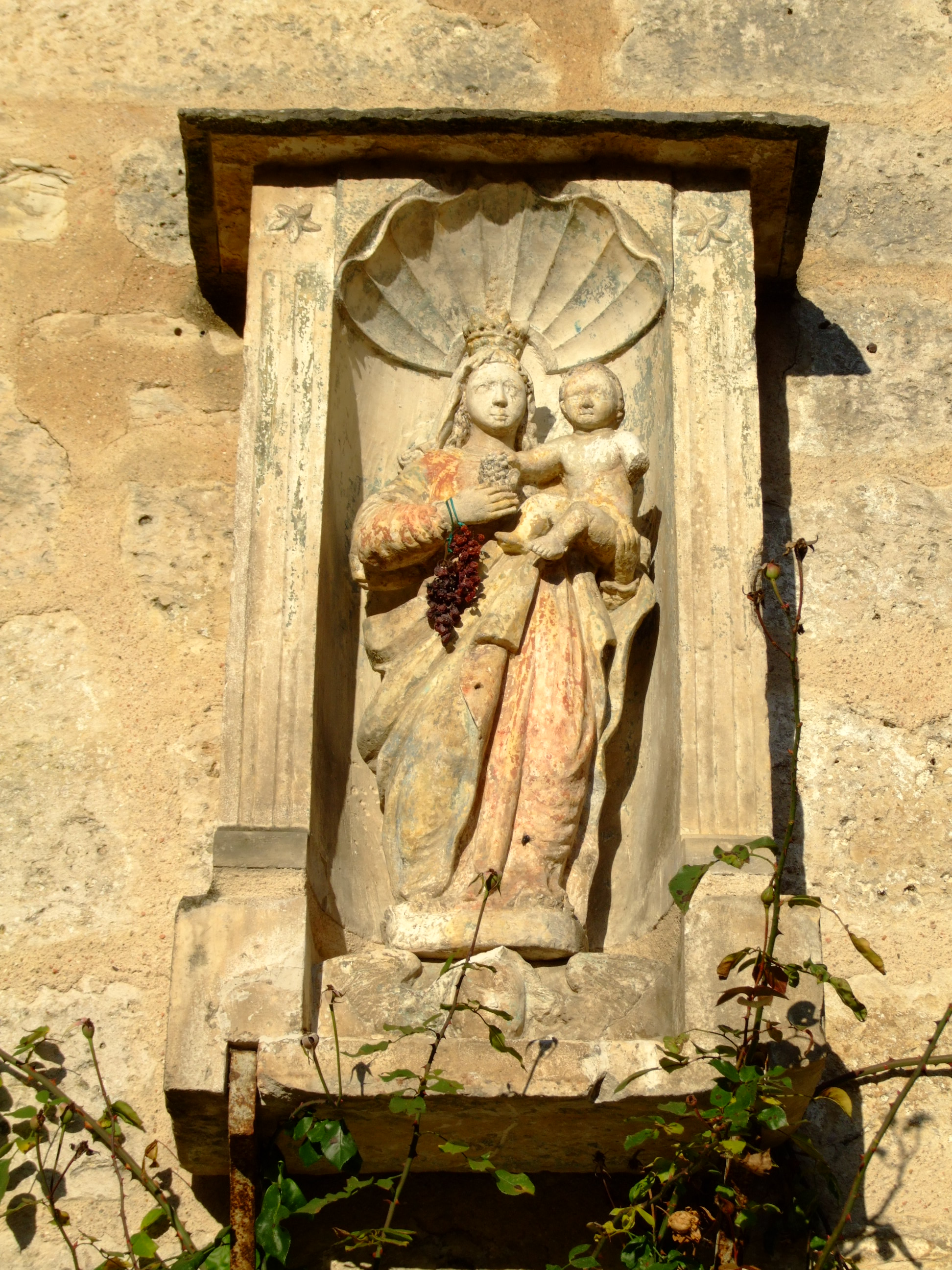 Noyers-sur-Serein, Yonne, Burgundy, FRANCE